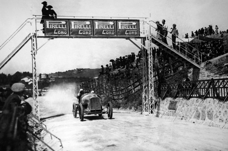 Entry #18 at Targa Florio on 23 November 1919 is Domenico Gamboni driving a Diatto 4 DC, ending in 4th place.[1] Here passing under a walking bridge. The Diatto 4 DC was introduced in 1919, built on basis of a Bugatti Type 30, called a 25 HP 4 DC with 85x120 mm cylinders, total of 2,724 ccm engine.[2]